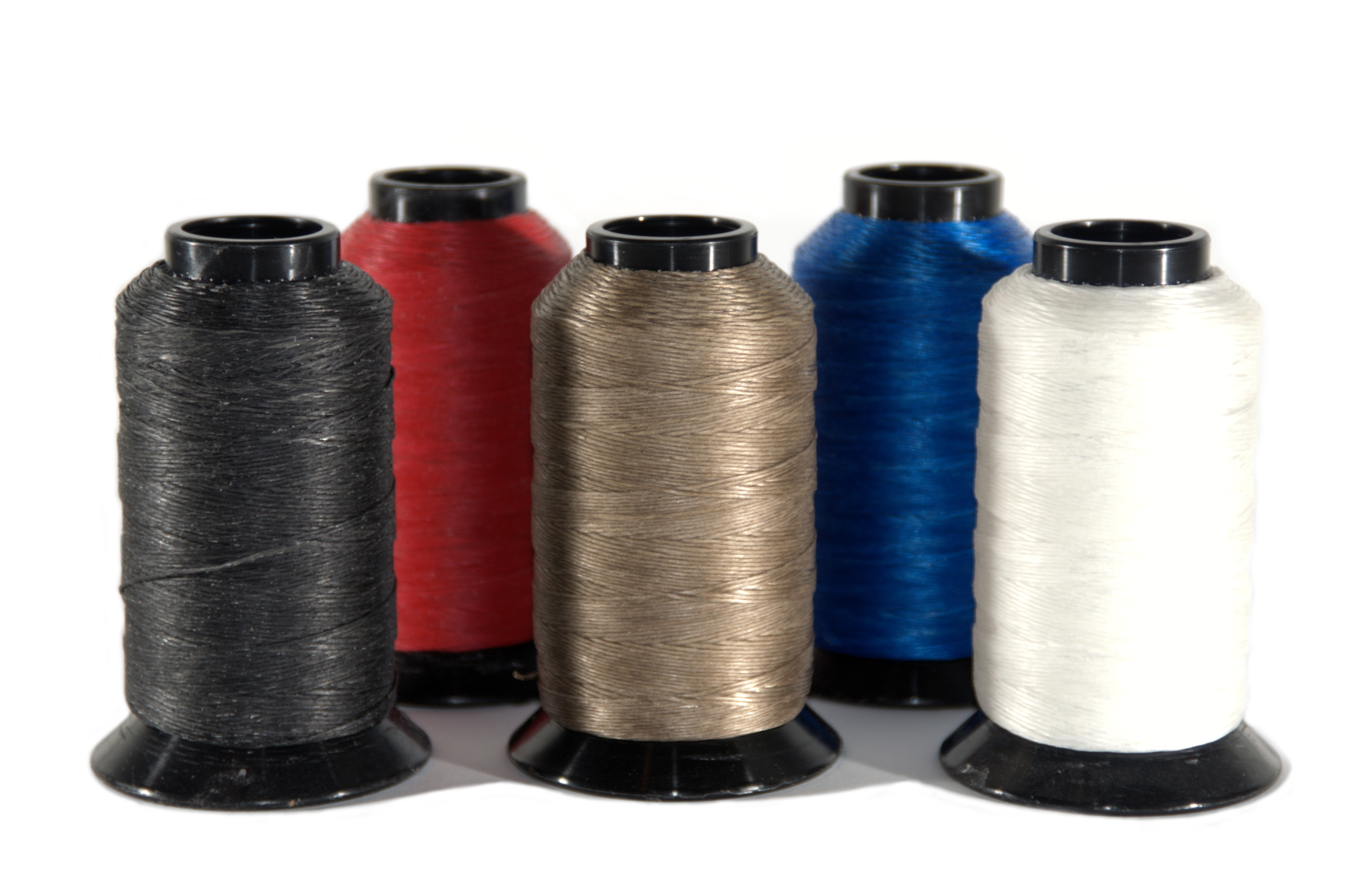 Dacron reels